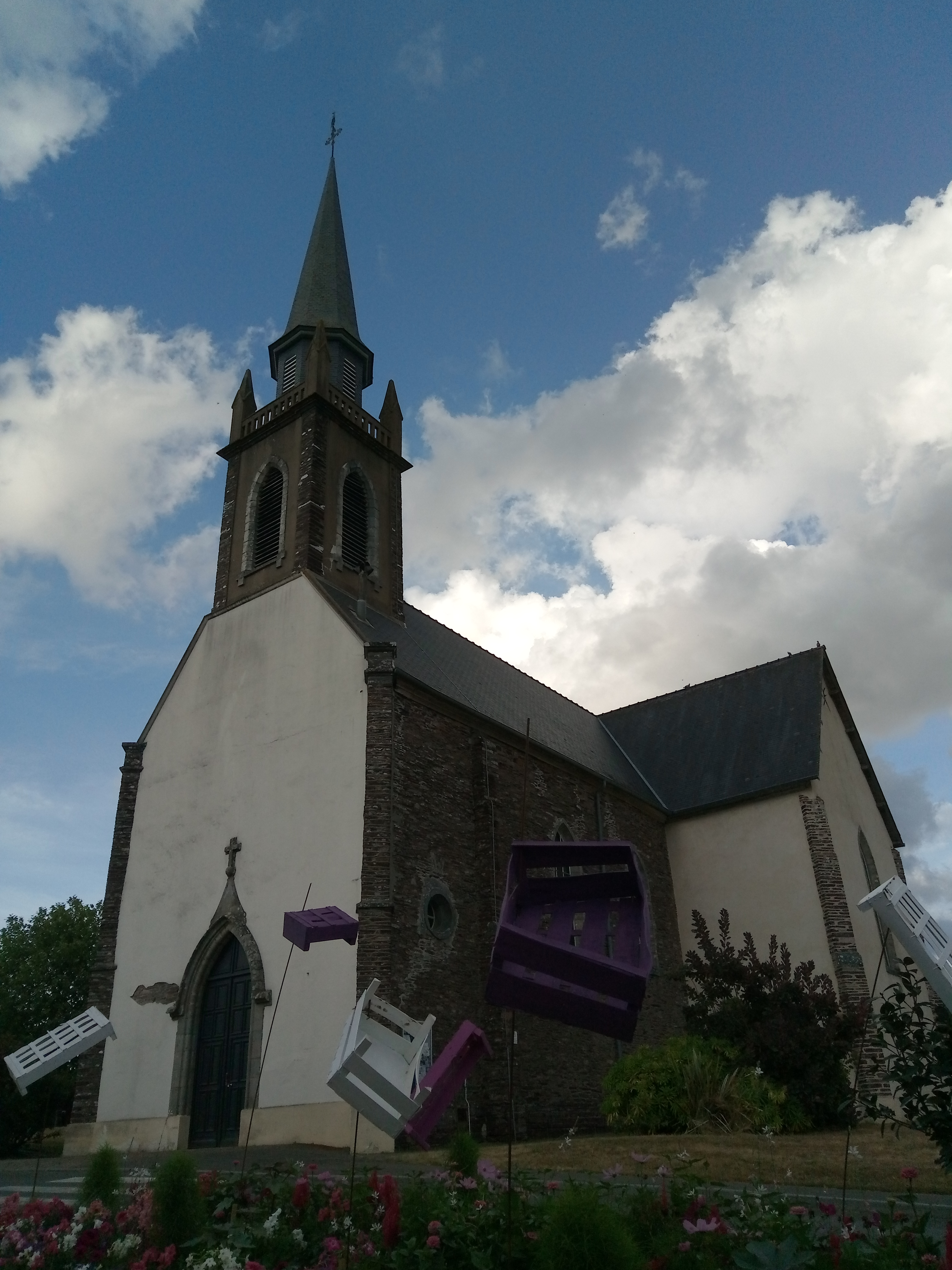 Church of St. Raoul, in Guer (Morbihan).